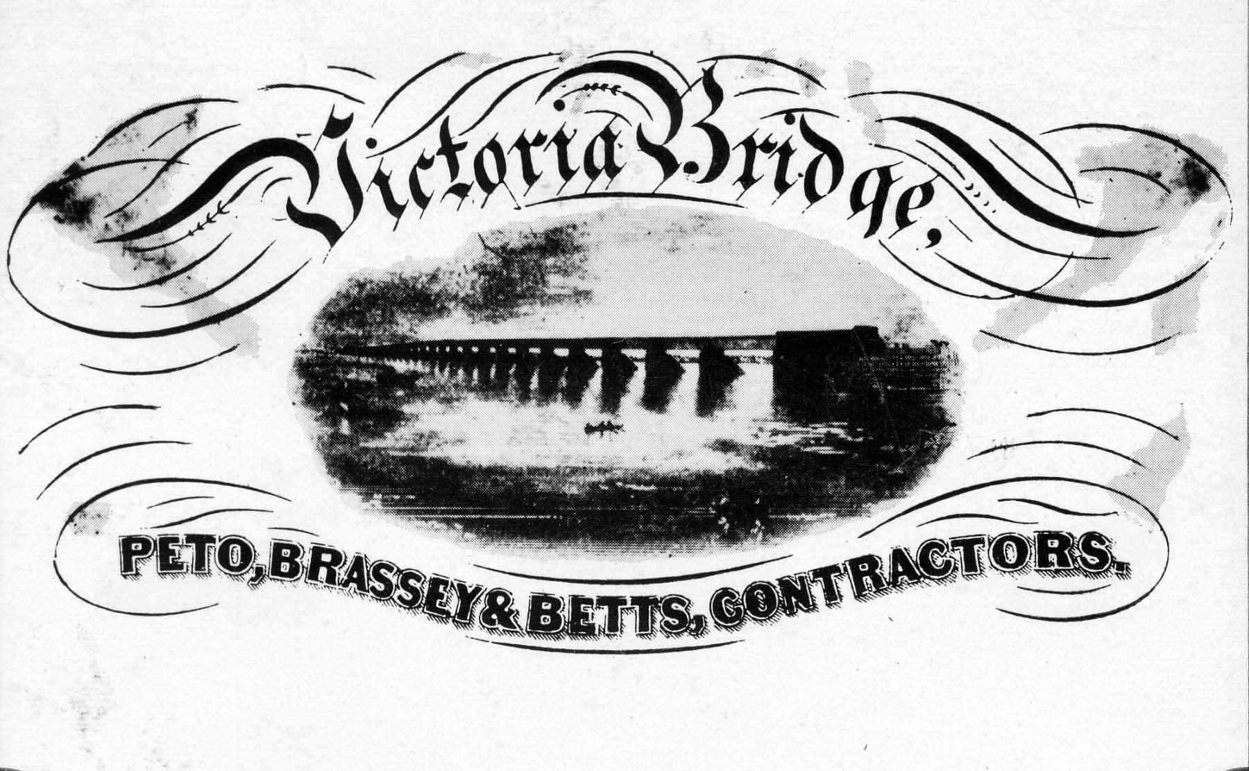 Handbill showing Victoria Bridge and names of contractors. Montreal, Quebec, Canada.